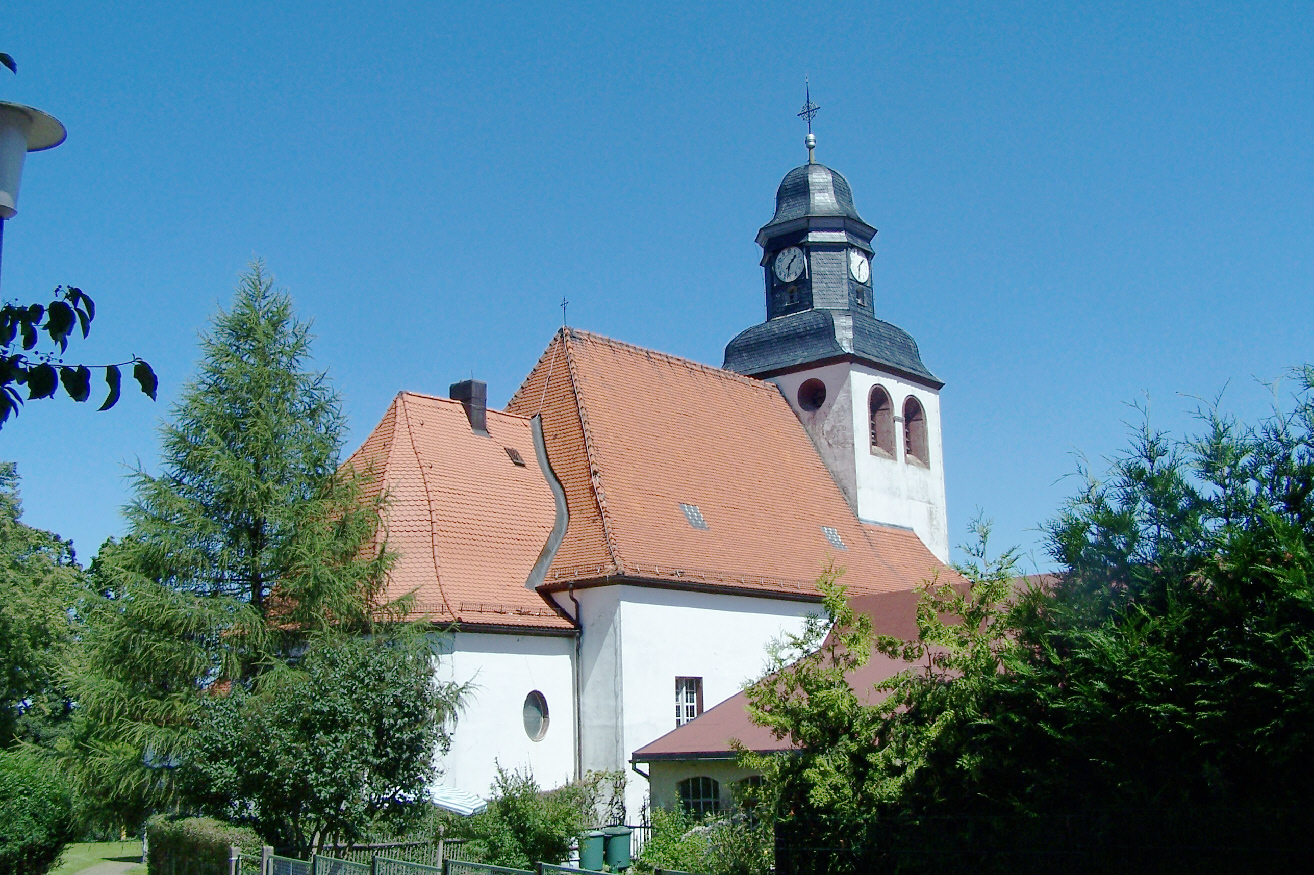 The church in Tabarz village.